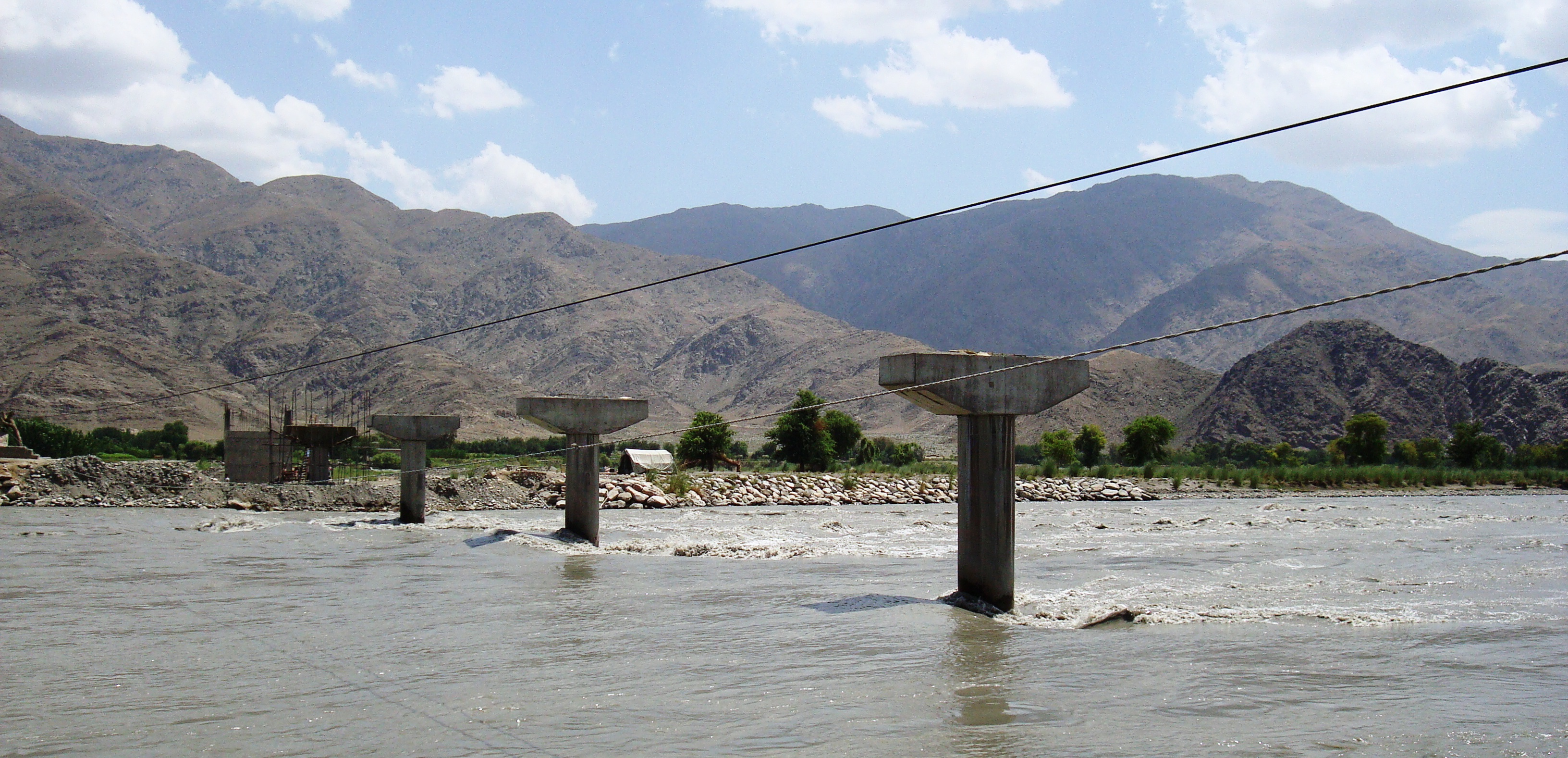 The Guryak Truck Bridge under construction in the Chapadara district of Afghanistan’s Konar province is one of five bridges being built in the province. U.S. Navy photo by Lt. Matthew Myers, Konar Provincial Reconstruction Team